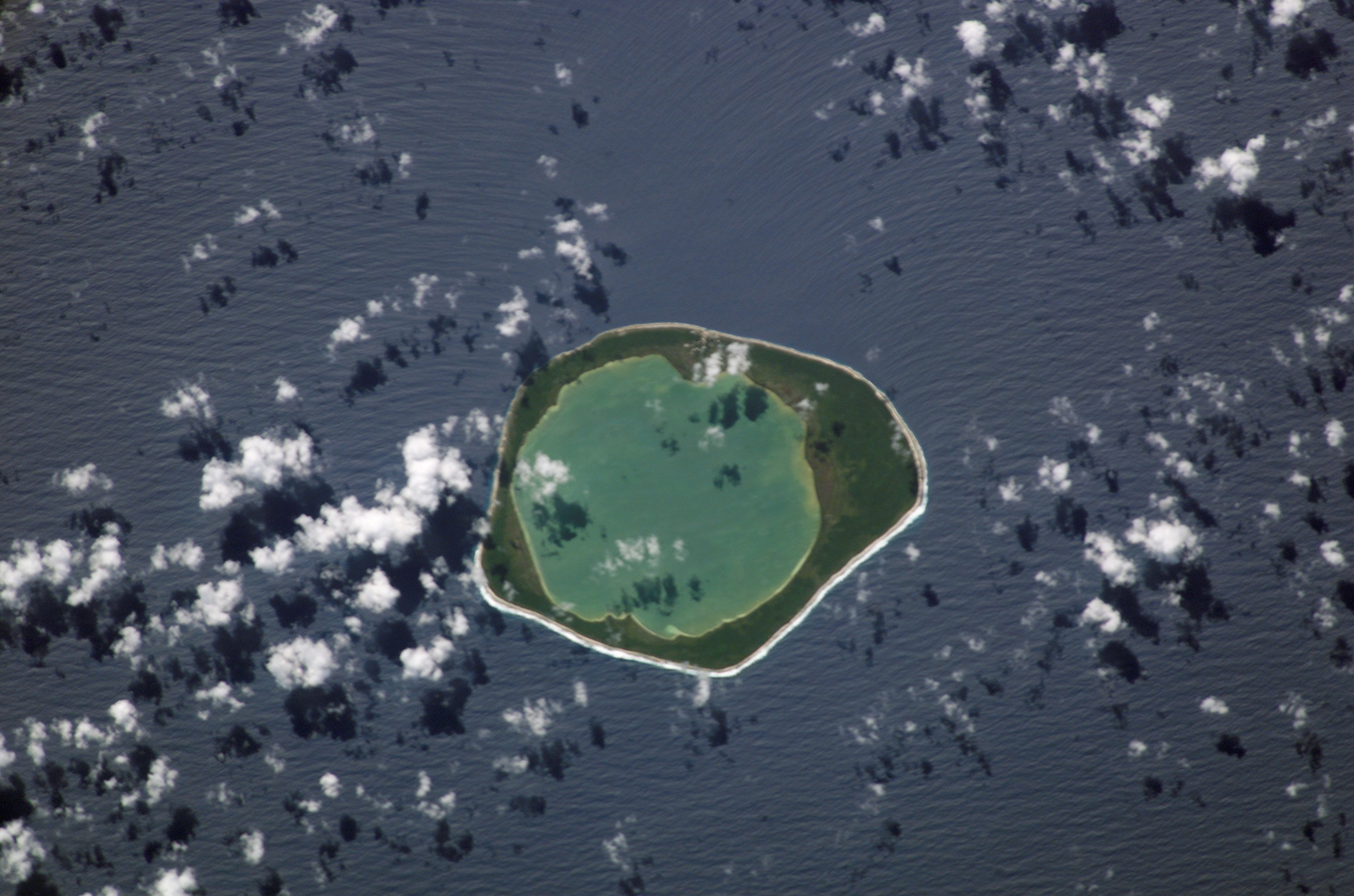 NASA Astronaut Image of Niau Atoll (Tuamotu Archipelago, French Polynesia) in the Pacific Ocean